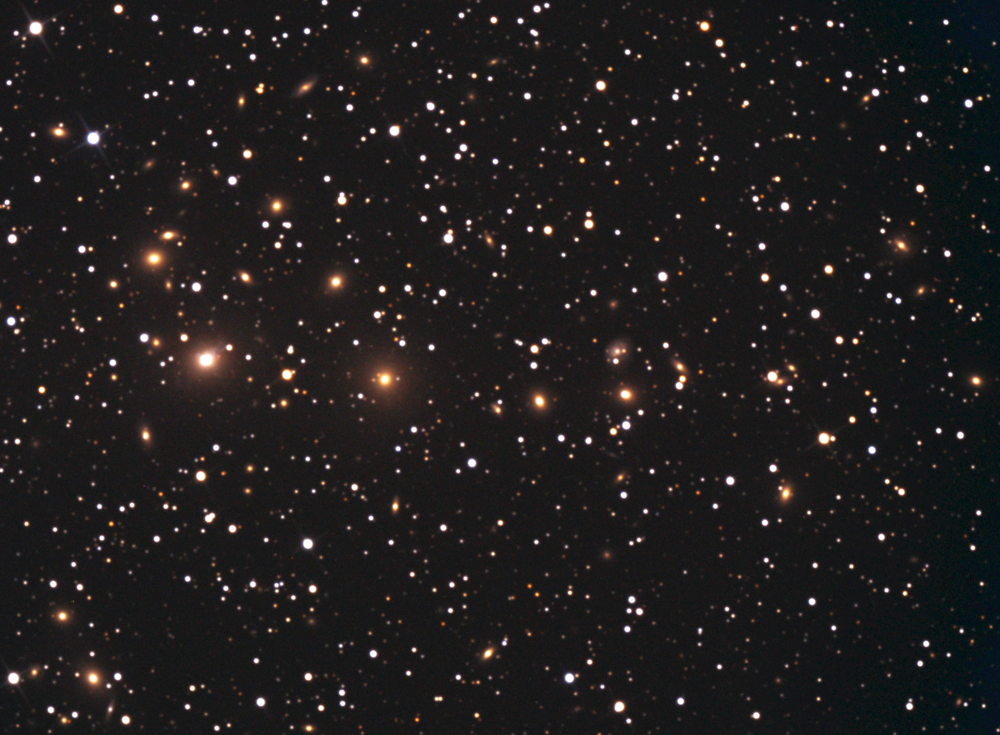 Perseus Cluster (Abell 426) - photographed with amateur equipment Skywatcher 10" Quattro Newtonian, Skywatcher AZ-EQ6 GT mount, Skywatcher f4 aplanatic coma corrector, Skywatcher 9x50 finderscope, Lacerta MGEN-II Superguider Canon EOS100D camera, 12x10 min exposures, ISO 800, 14x10 min dark frames, processing made with DeepSkyStacker 3.3.4 and Adobe Photoshop CS5 Baiculesti commune, Arges county, Romania Avg. outside temperature: -5ºC